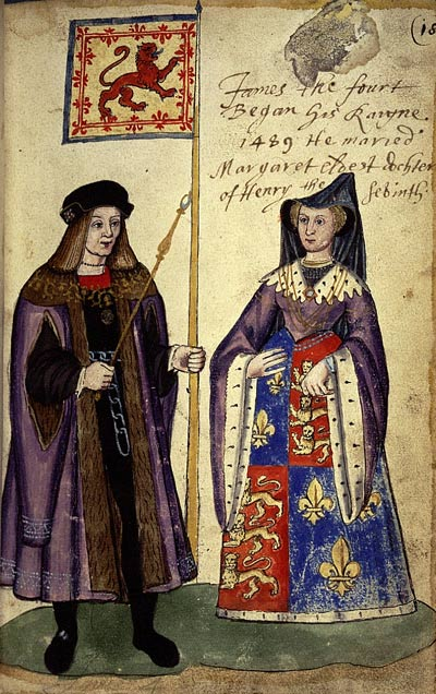 Margaret Tudor, Queen of Scotland, Daughter of Henry VII, Sister of Henry VIII, with her husband, James IV of Scotland.